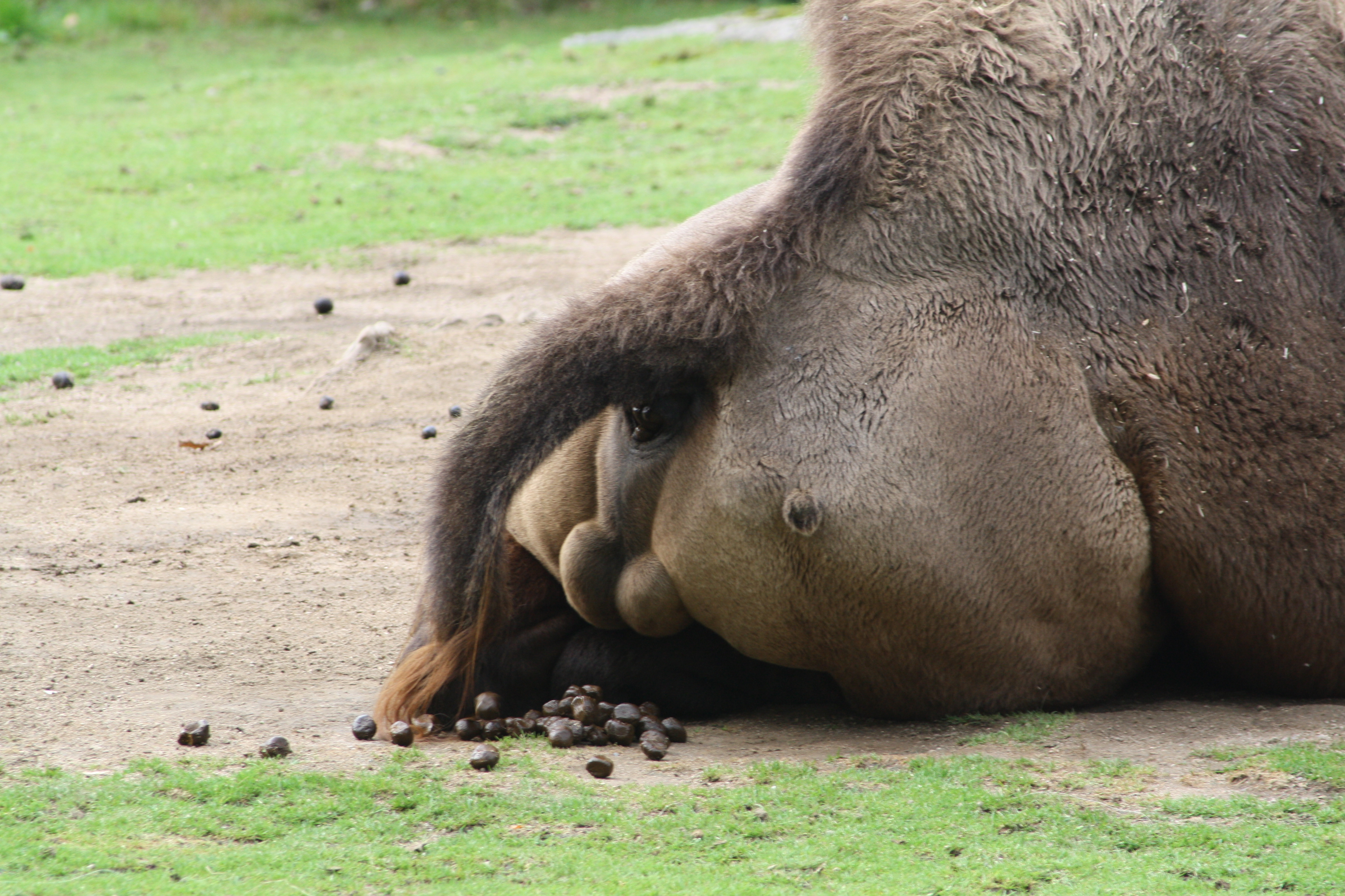 Dropping Camelus bactrianus in Liberec ZOO.